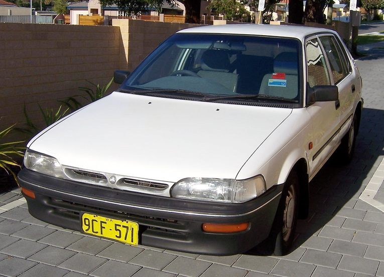 1991–1994 Holden LF Nova SL hatchback, photographed in Western Australia, Australia.